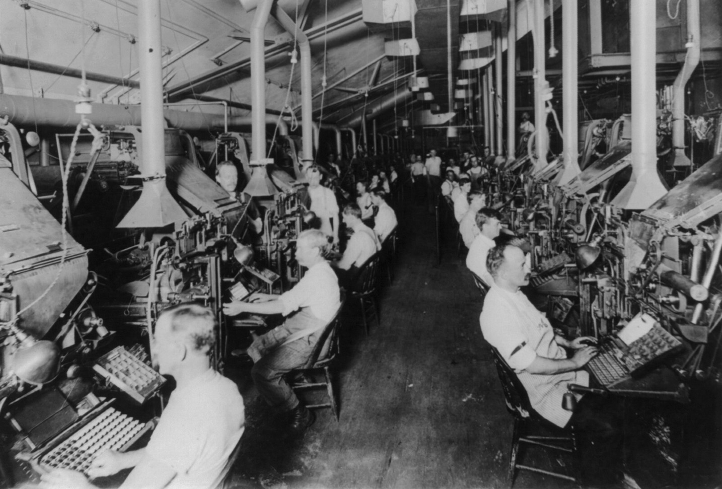 Composing room with linotype machines, New York Herald, 1902.